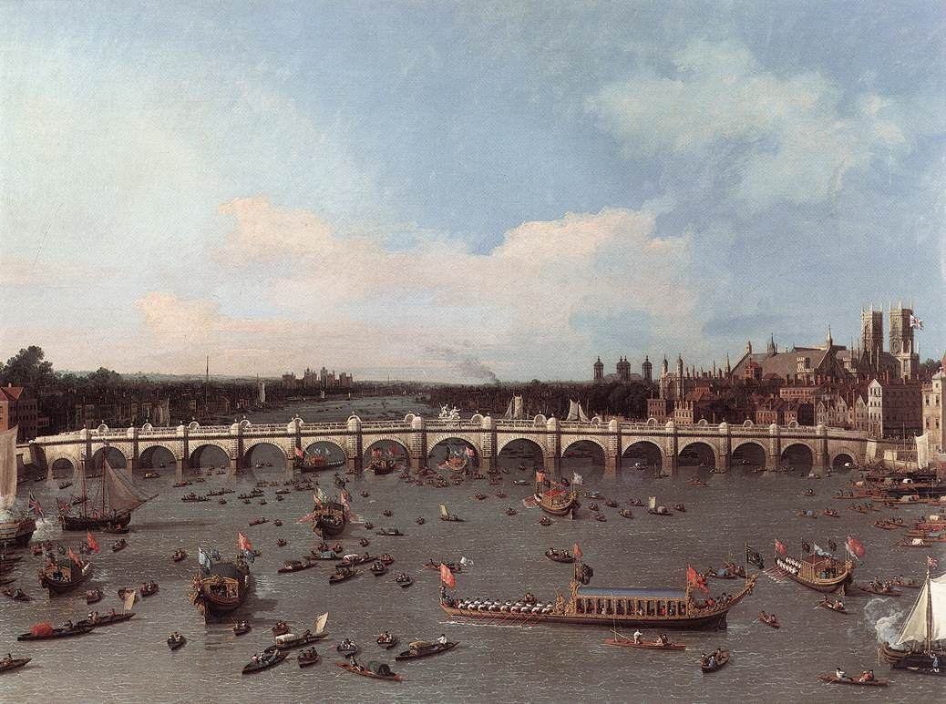 people, event, celebration, commemoration, holiday, procession, festival, monuments, church, cathedral, ships, barges (flat-bottomed watercraft), rowboats, sailboats, cityscape, flags, boats